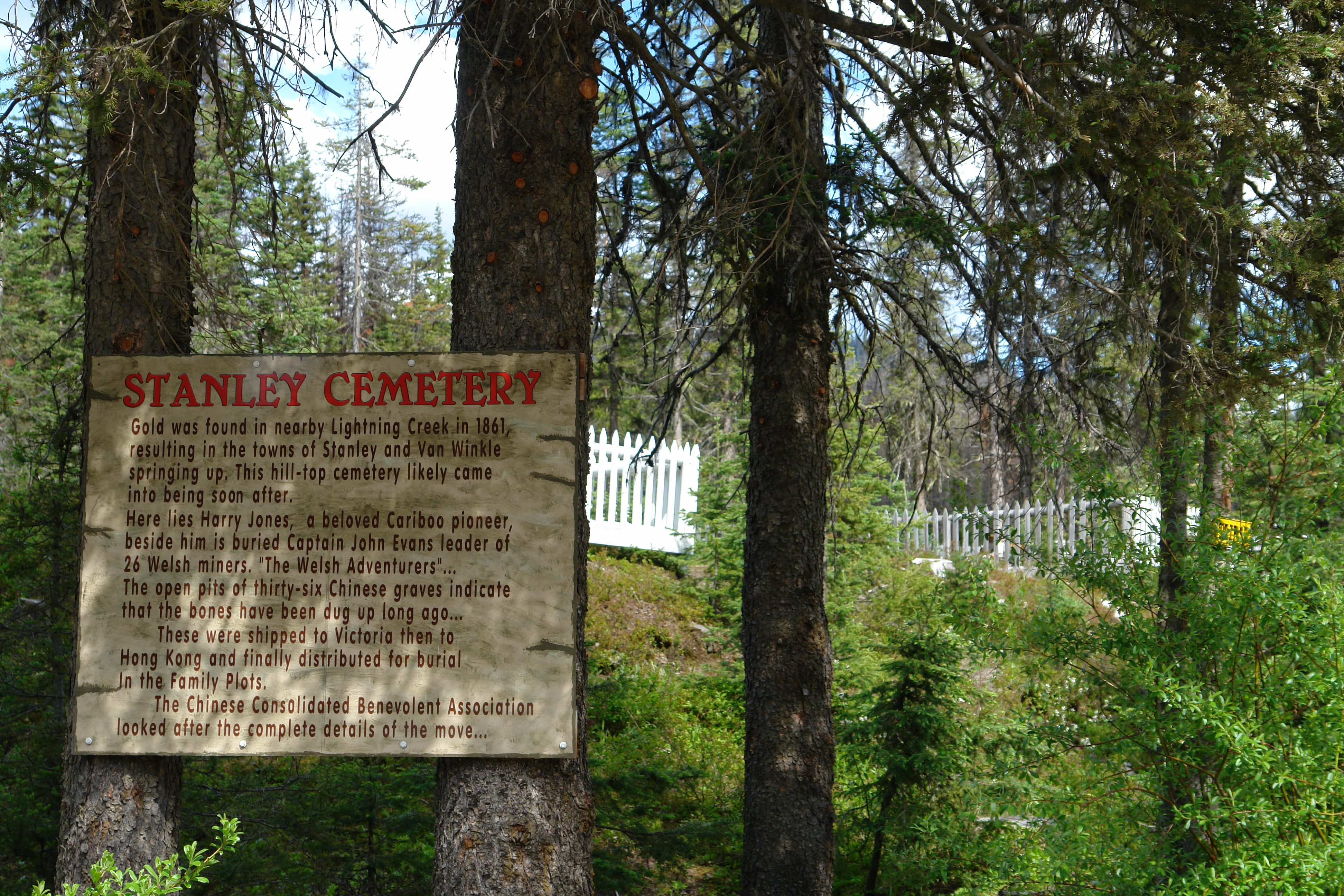 Photo by Steve Sarjola